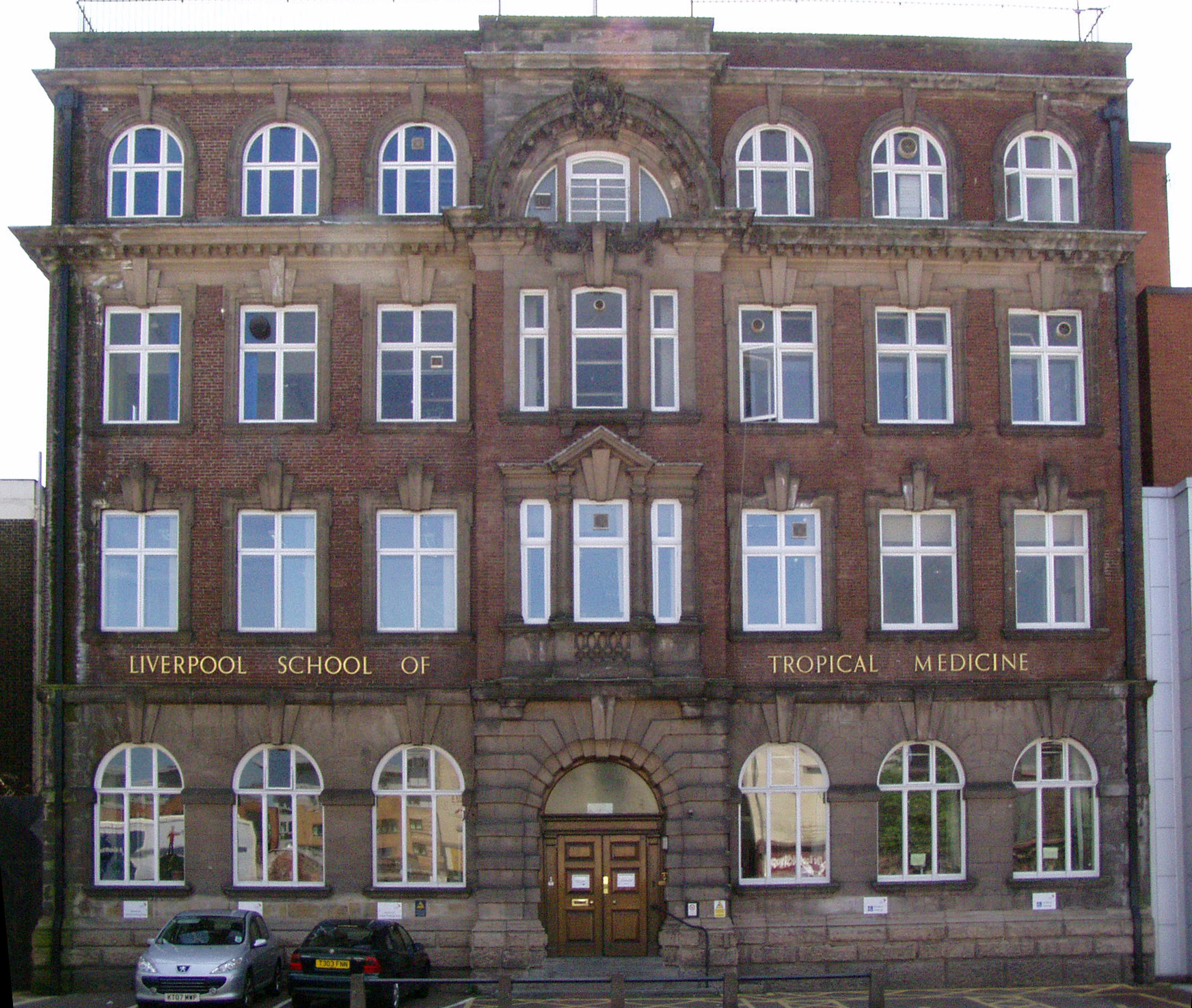 Liverpool School of Tropical Medicine